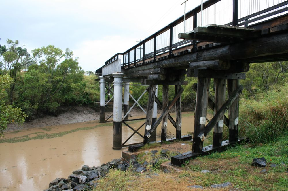 Saltwater Creek Railway Bridge (2009) - angled view